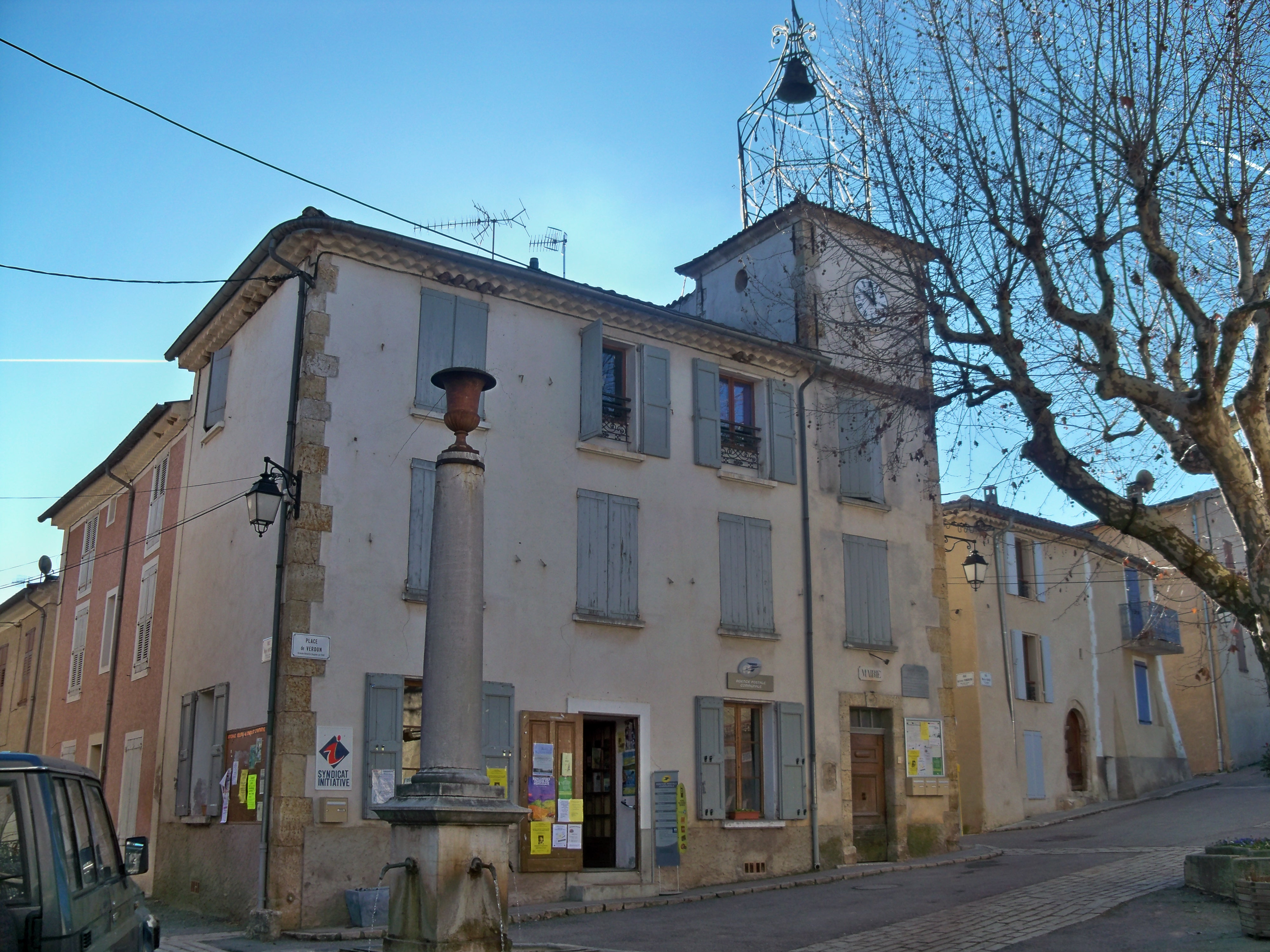 Town halls of Allemagne en Provence, Alpes de Haute Provence, France